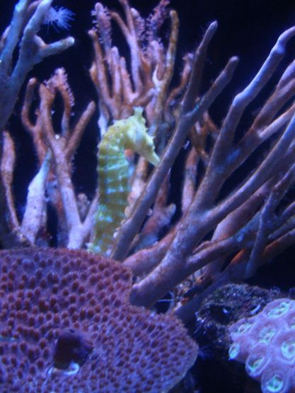 Cute Sea Horse from the Perth's Aquarium